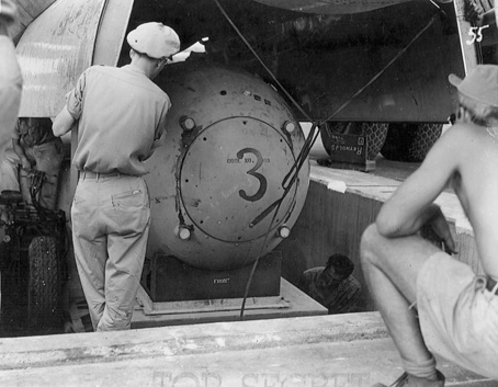 A "Fat Man" test unit being raised from the pit into the bomb bay of a B-29 for bombing practice during the weeks before the attack on Nagasaki. (Photo from U.S. National Archives, RG 77-BT)